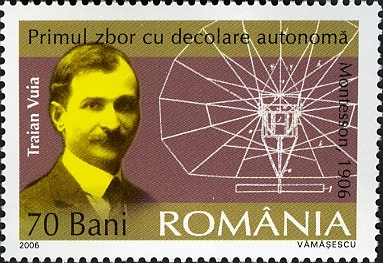 Stamps of Romania, 2006